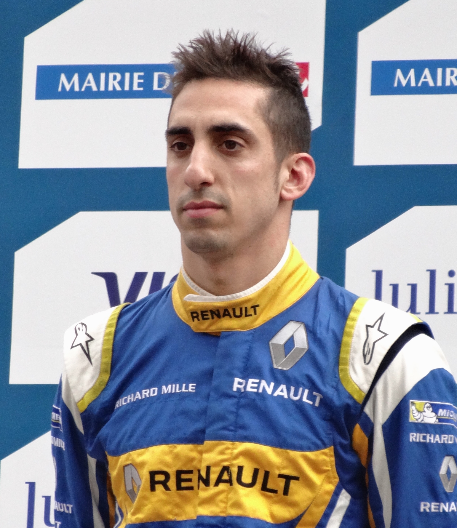 Stéphane Buemi Formula E